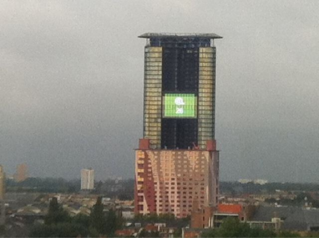 Het Beeld van Den Haag from a distance